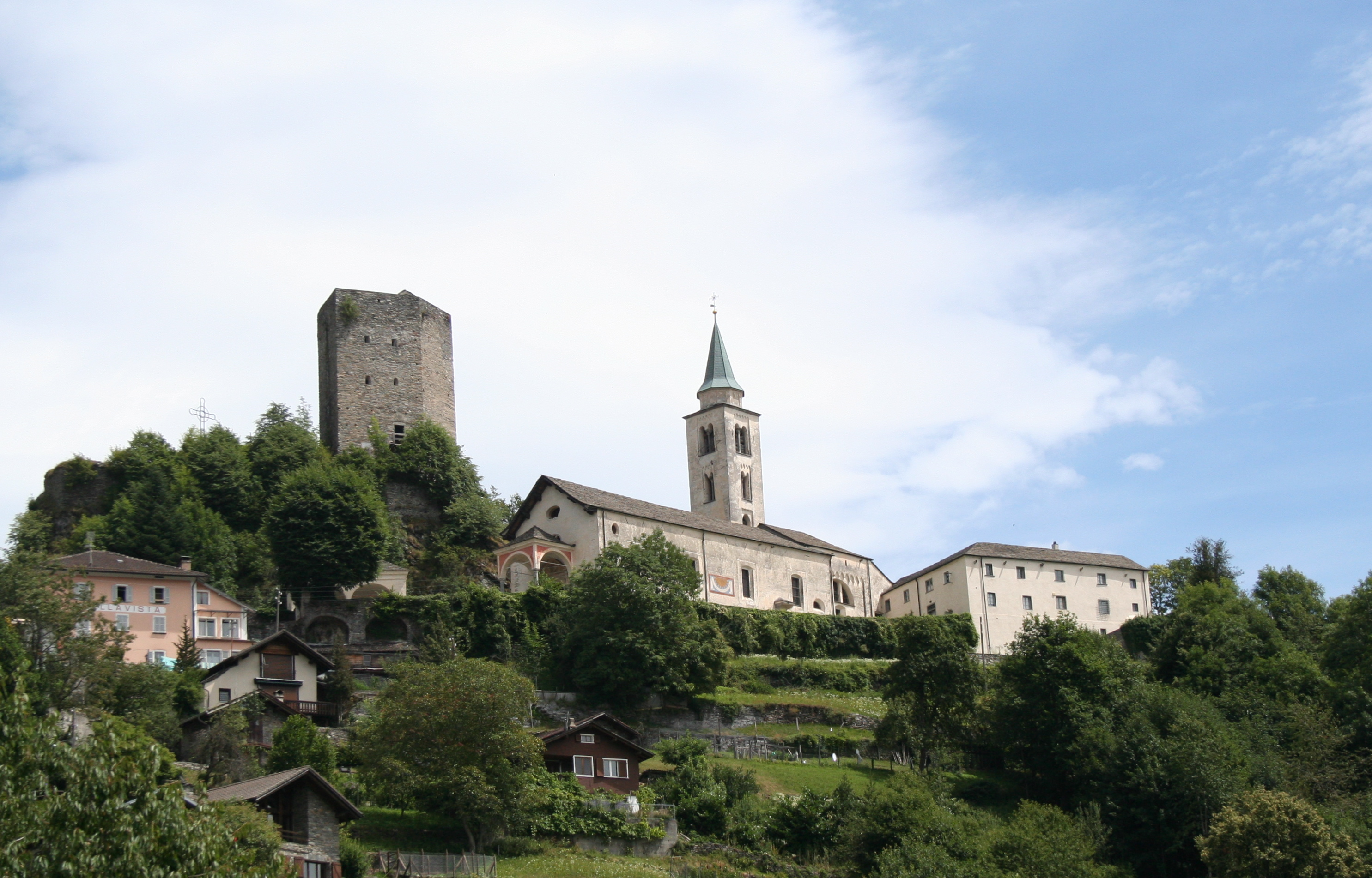 Tower Santa Maria in Calanca